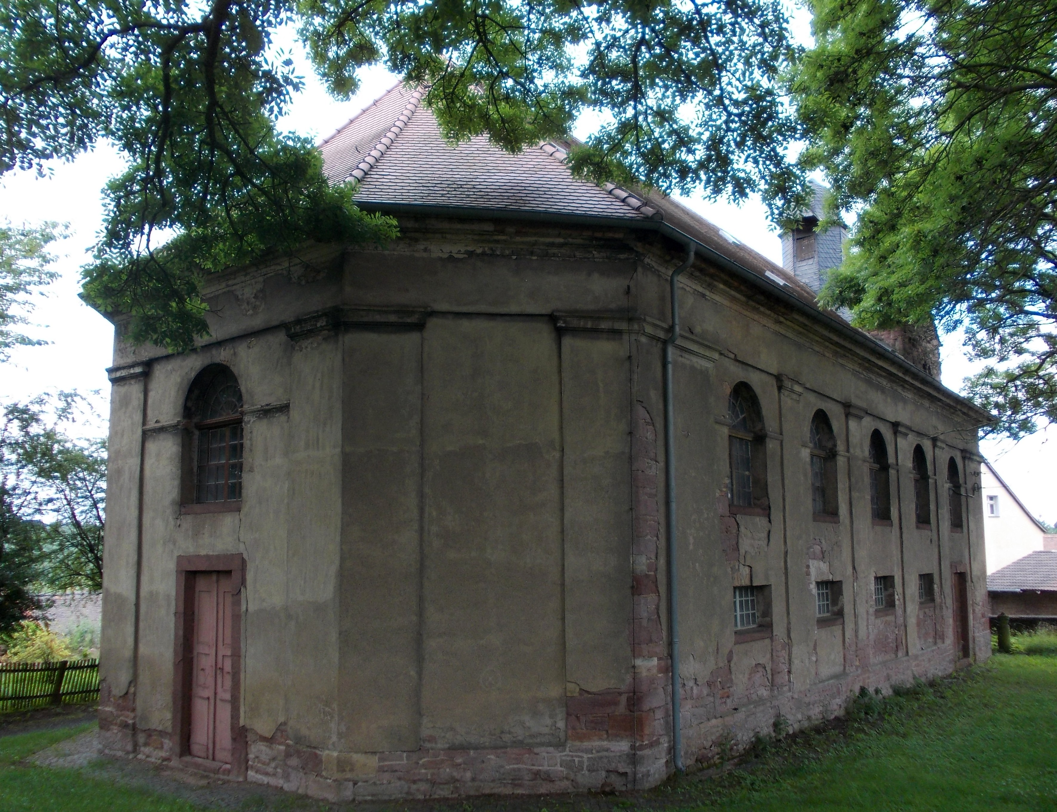 St. Lambert's Church in Blankenheim (Mansfeld-Südharz district, Saxony-Anhalt)